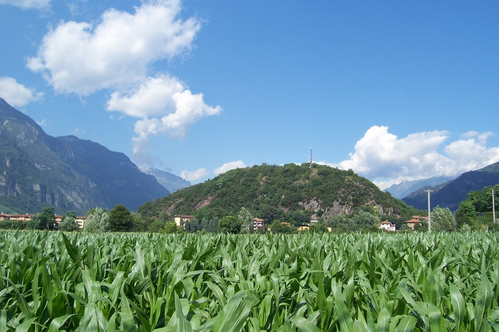 Monticolo, Montecchio, Valle Camonica